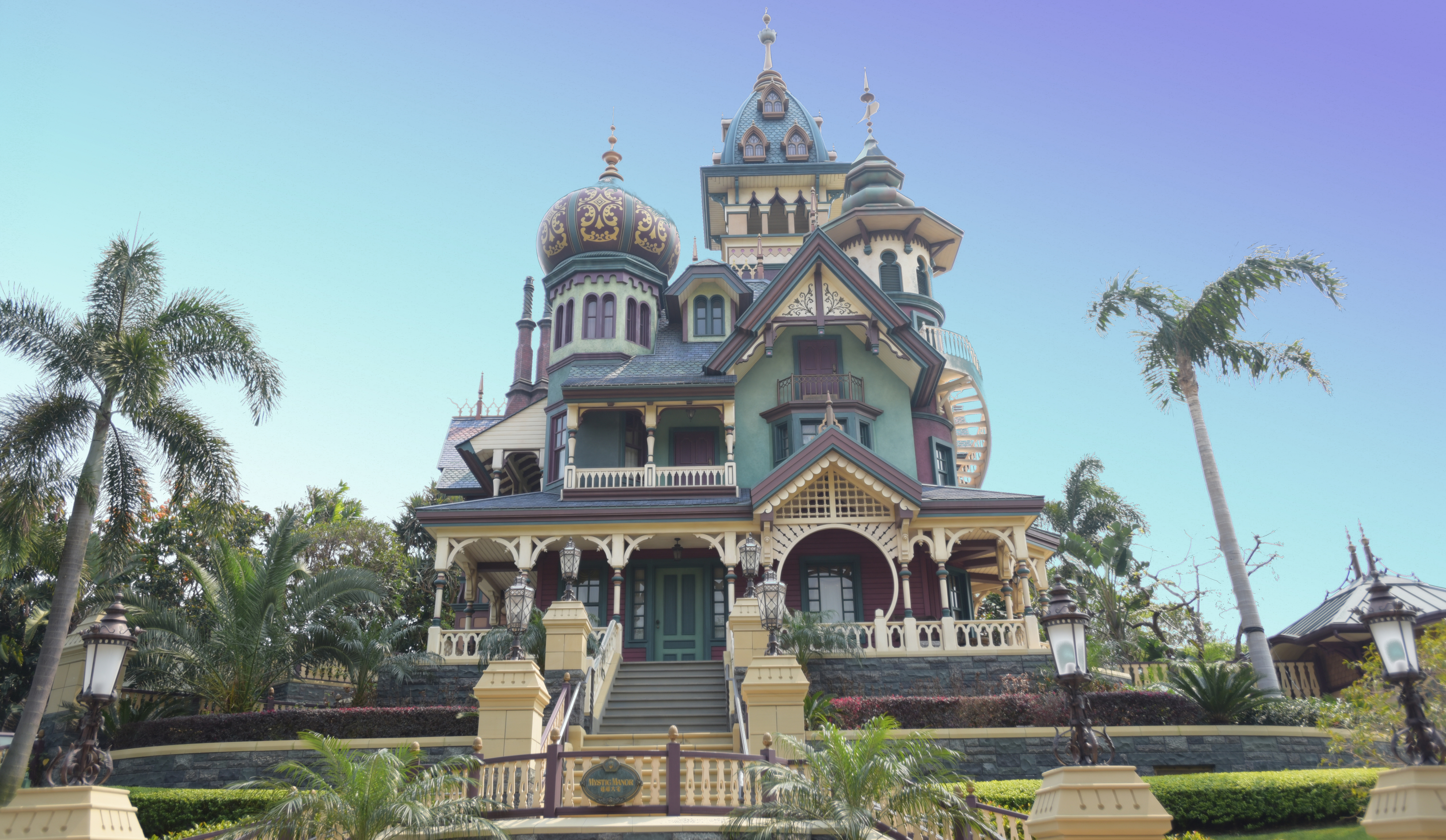 Mystic Manor in Hong Kong Disneyland